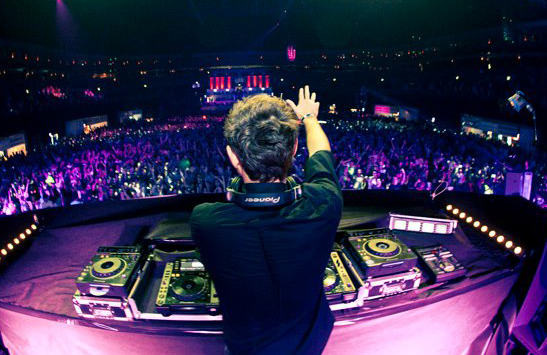 Andy Moor performing live in 2010